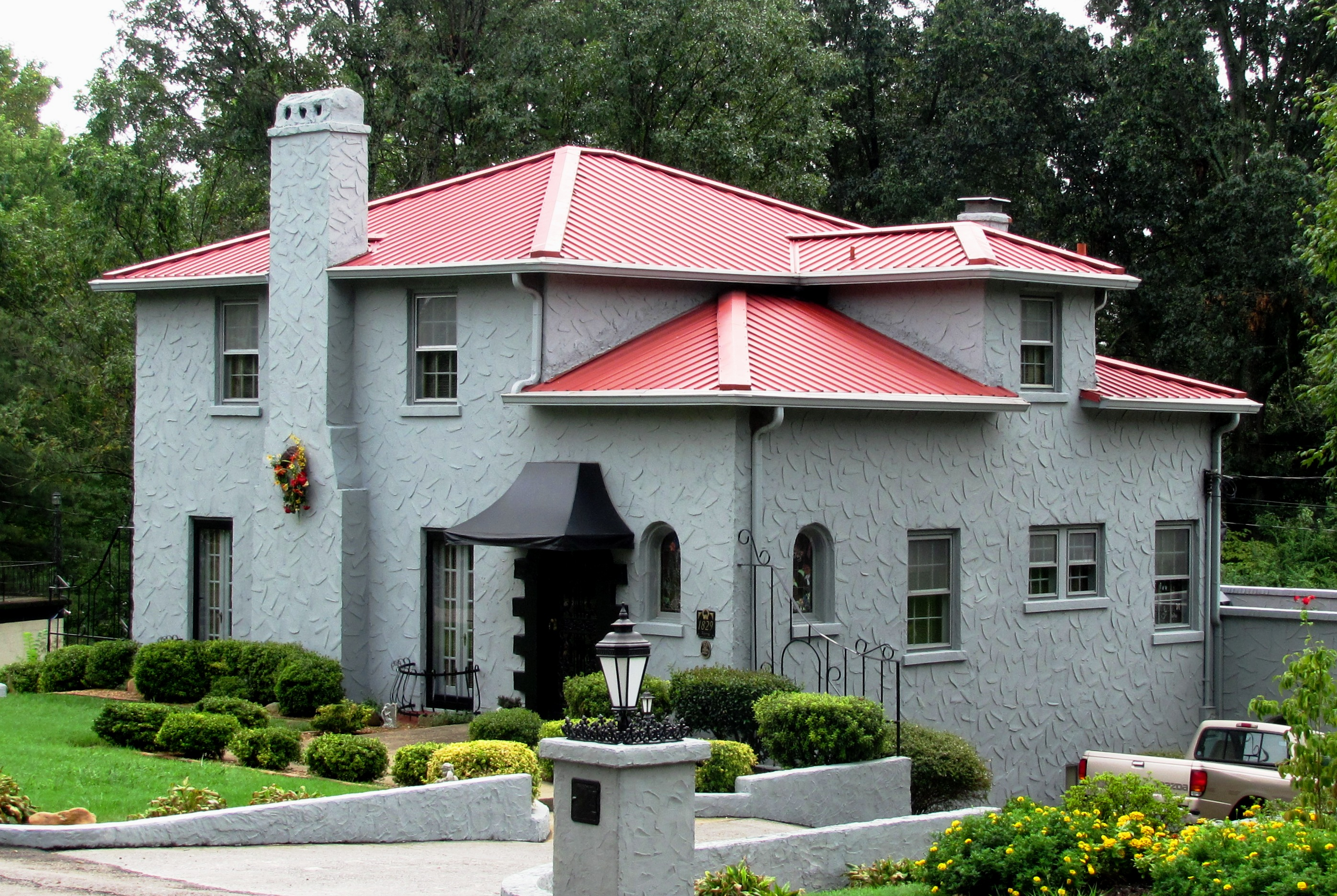 House at 1829 North Hills Boulevard in the North Hills community of Knoxville, Tennessee, USA. Built in 1929 in the Spanish Eclectic style, this house is now a contributing property within the NRHP-listed North Hills Historic District.